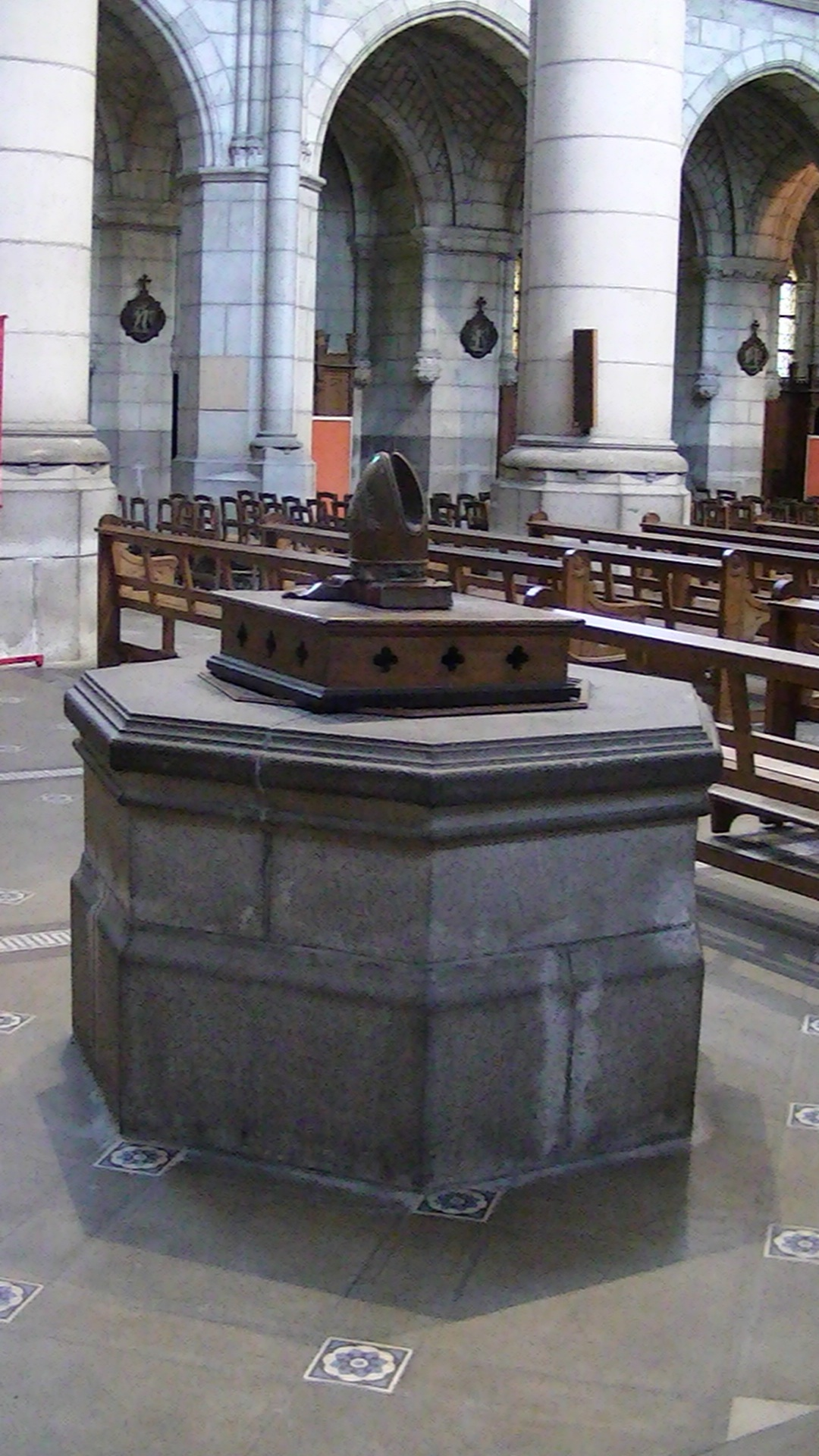 Merovingian-era well at the entrance of the Church of Saint-Similien, Nantes